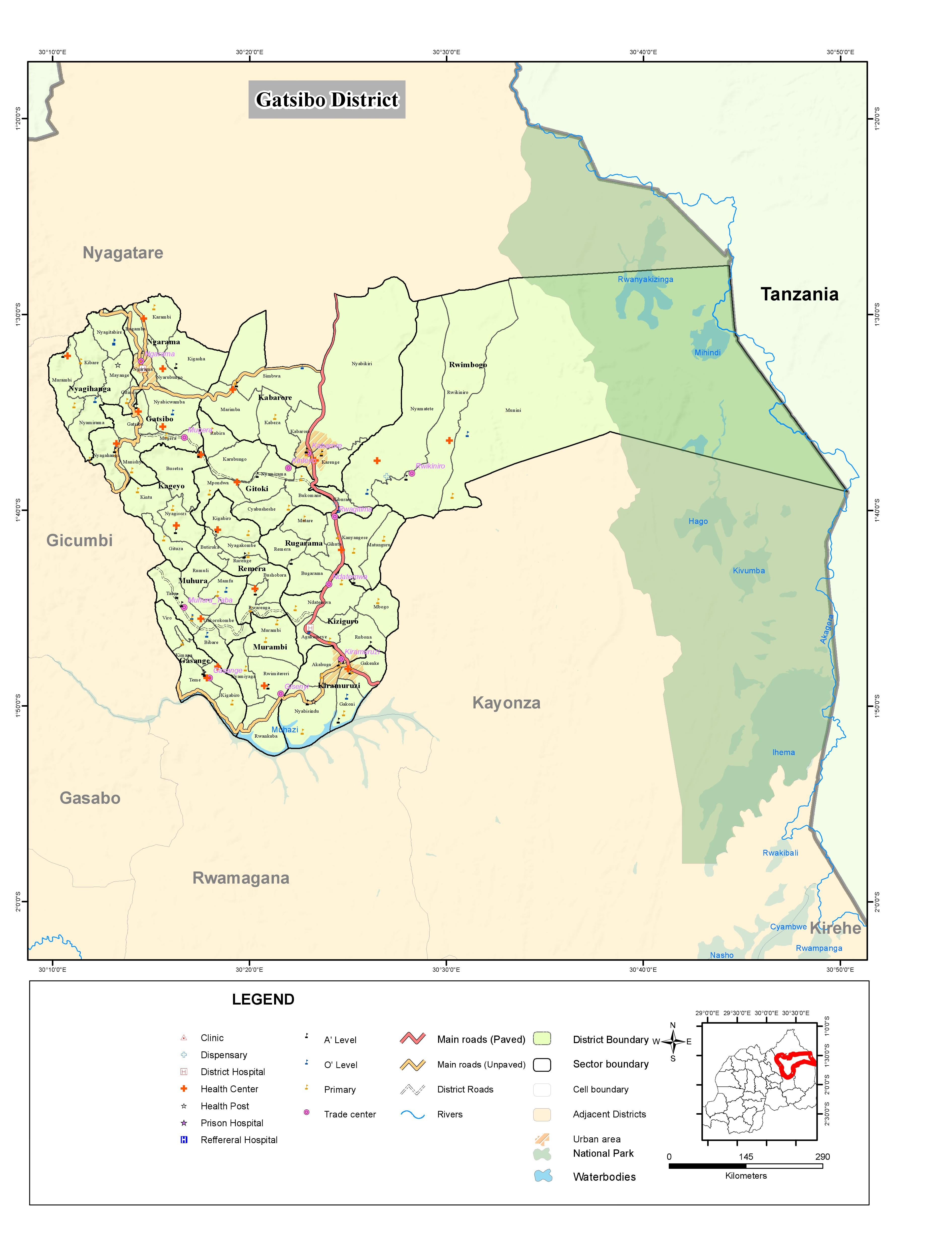 Map of Gatsibo district Rwanda